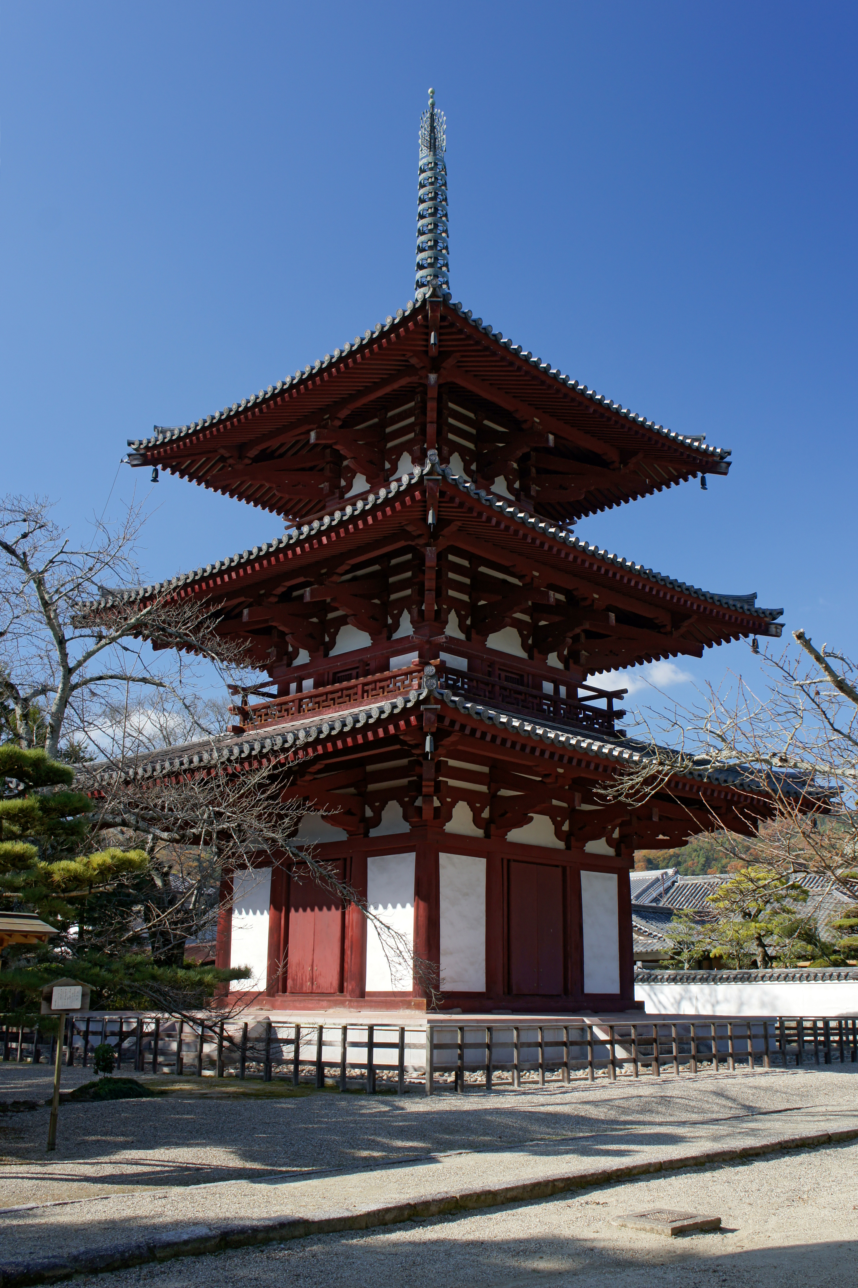 Hōrin-ji is a Buddhist temple in Ikaruga, Nara prefecture, Japan.